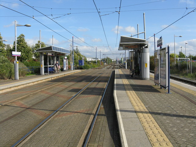 Wednesbury Parkway tram stop The generic two platform design for the Midland Metro tram system is modified here to accommodate the access track to Wednesbury depot, visible on the extreme right.